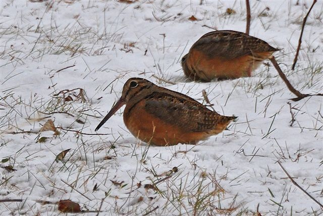 Scolopax minor. This photo was taken in 2011 at Ninigret National Wildlife Refuge, RI. Photo: Tom Tetzner, USFWS.